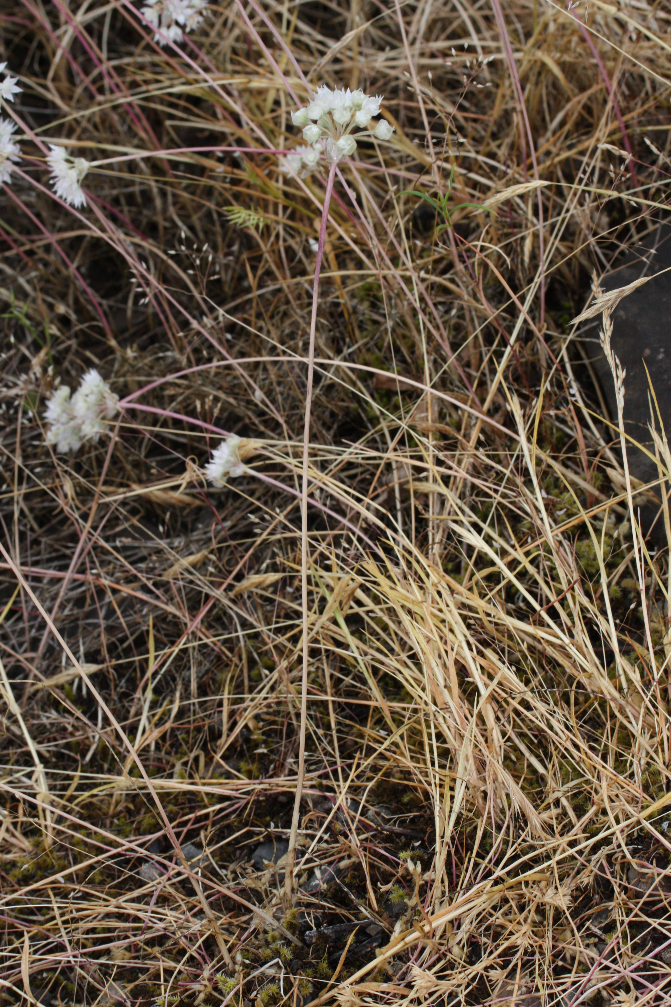 Narrow-leaf Onion